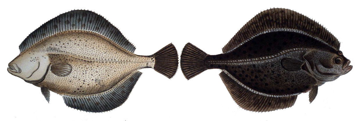 Platichthys flesus